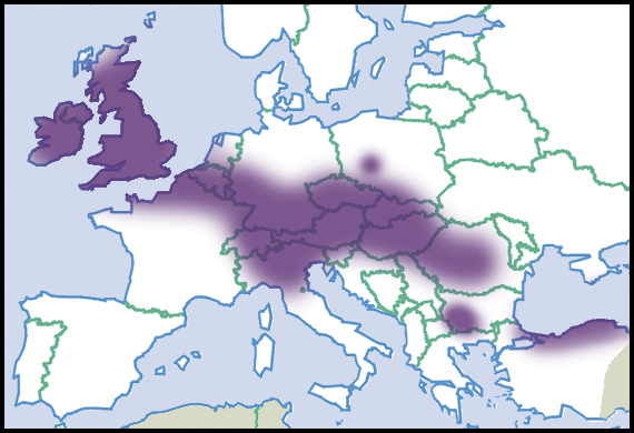 Tandonia budapestensis (Hazay, 1880). Distribution in Europe, scientific state of knowledge of 2012. Source description in English. Light colour indicated rare occurrences or regions where the species could eventually be expected to occur. Dark colour indicated relatively reliable occurrences, as well as regions where the species was expected to occur, and where the species was not known to be extremely rare. Dark colour indications were not necessarily based on published records. Species summary in AnimalBase